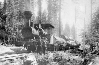 Locomotive "Betsy", Logging train, Madera County, ca 1901.